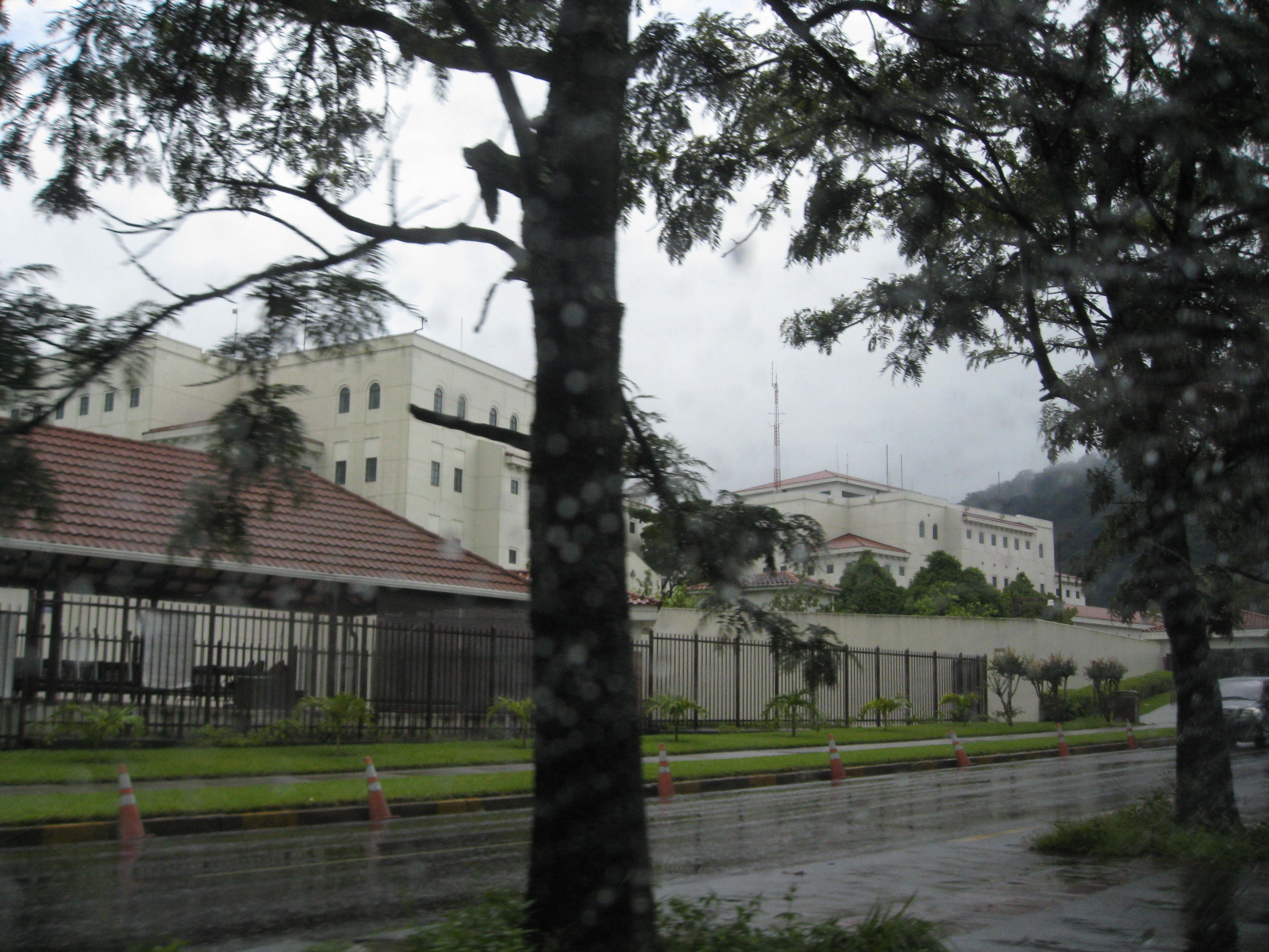 Embassy US